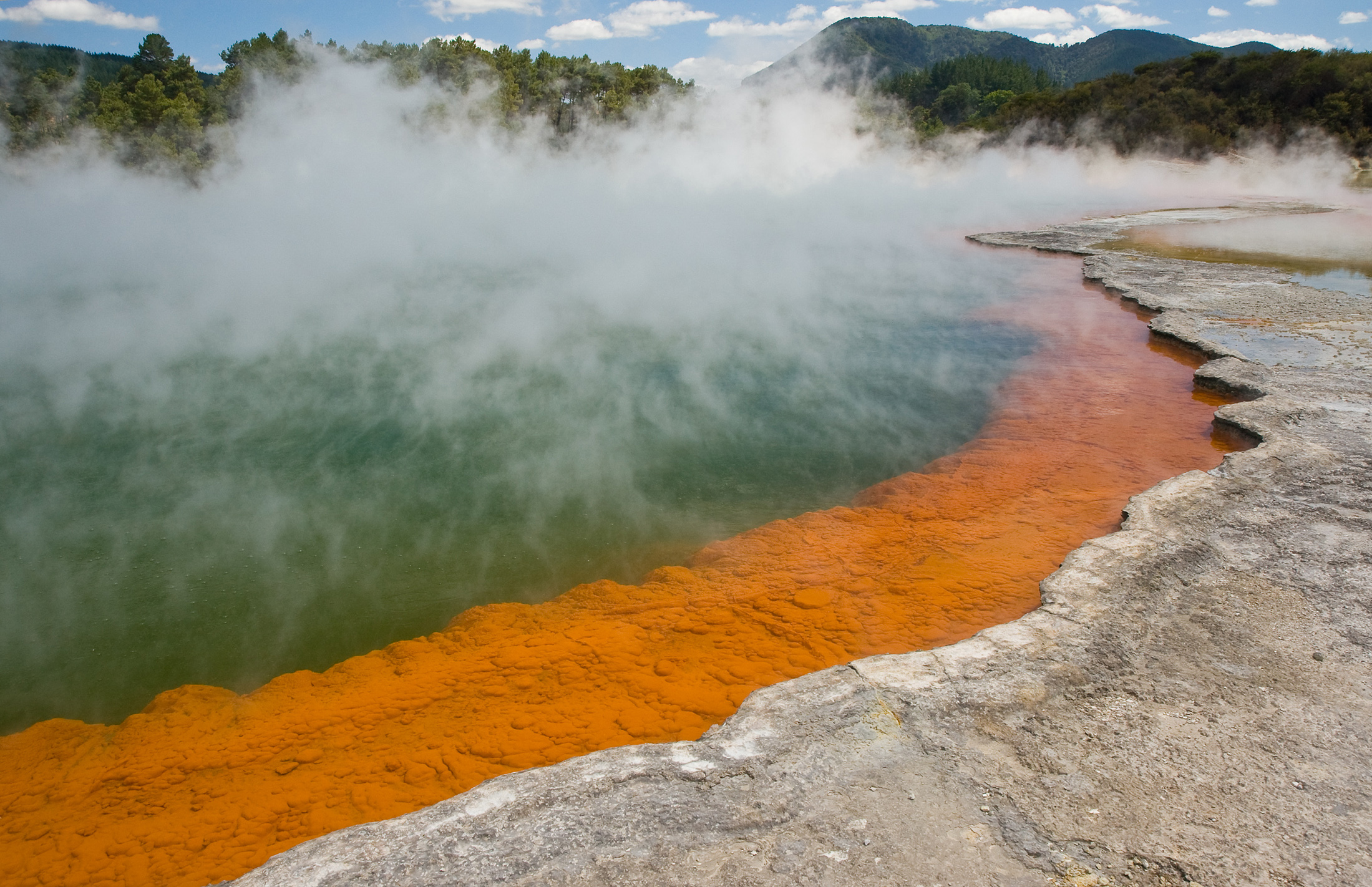 Champagne Pool, Wai-O-Tapu, near Rotorua, New Zealand